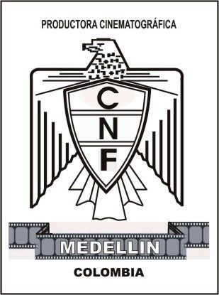 Colombia National Films logo